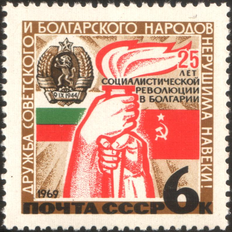 USSR stampː olding torch, flags of Bulgaria, USSR, Bulgarian arms. Seriesː 25th Anniversary of the Socialist Revolution in Bulgaria (1944, September)